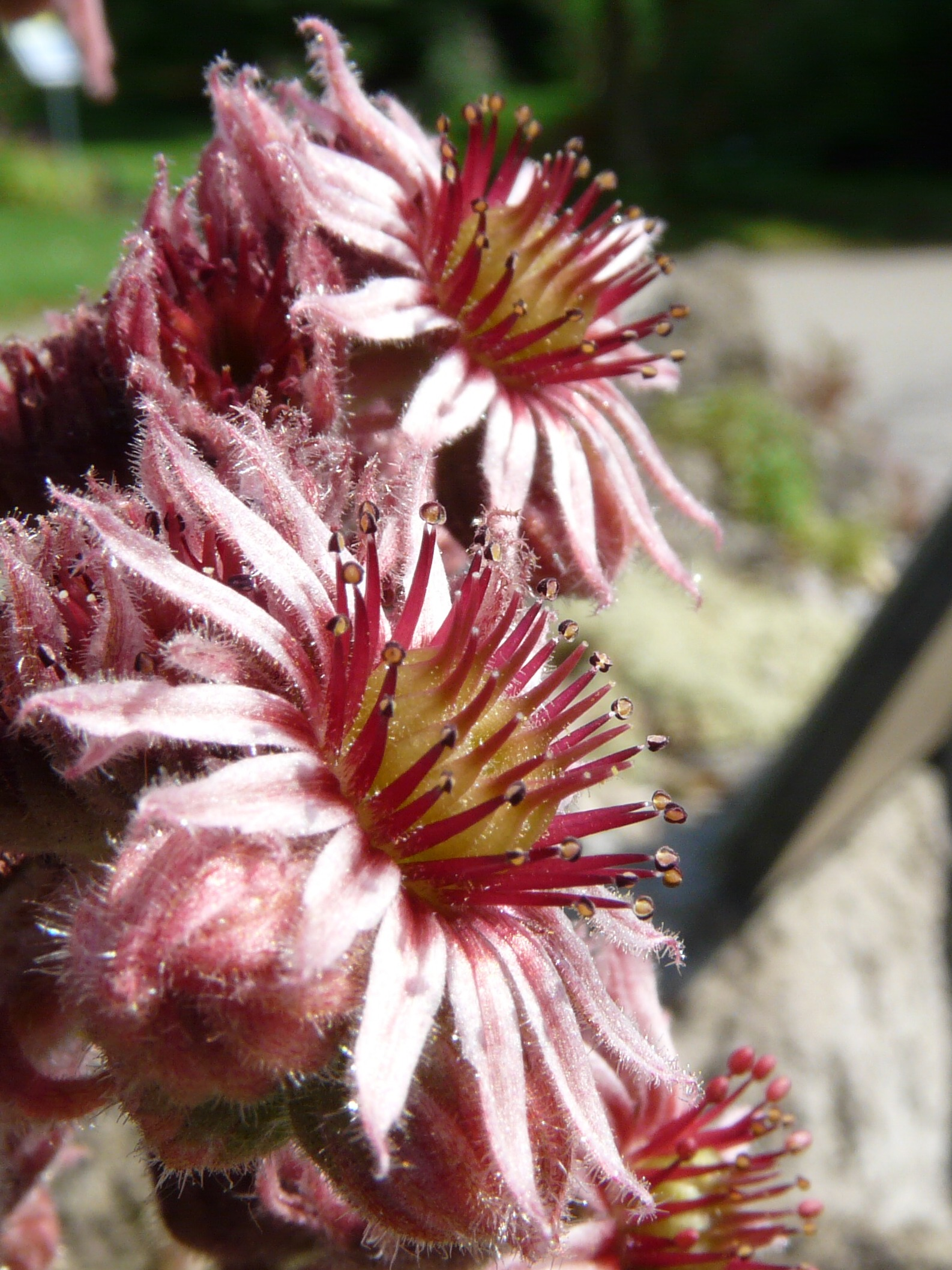 Sempervivum tectorum subsp. alpinum at Botanical Gardens Utrecht